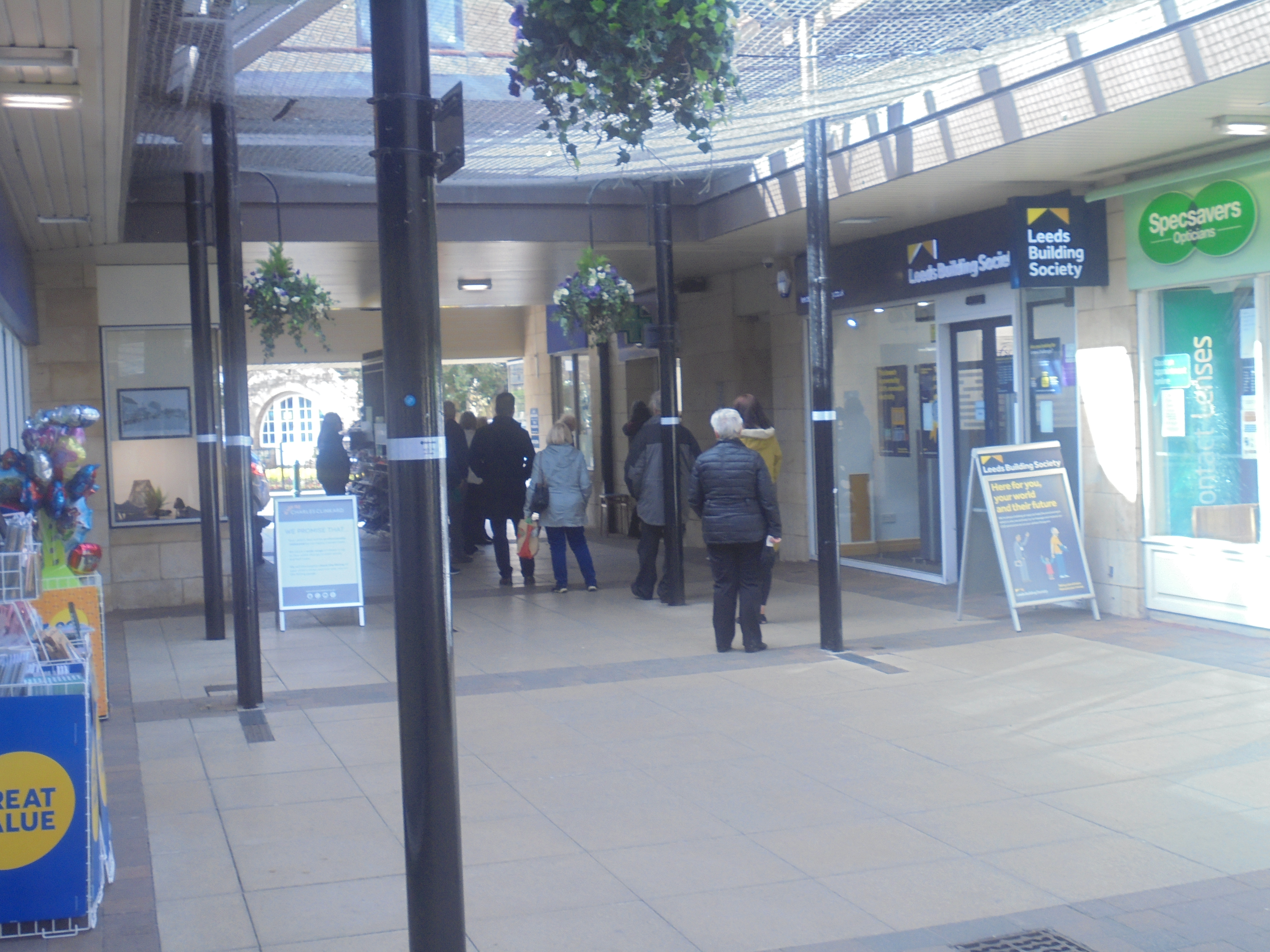 Queueing due to the Coronavirus pandemic outside Boots, Horsefair Centre, Wetherby, West Yorkshire. Taken on the afternoon of Friday the 20th of March 2020.